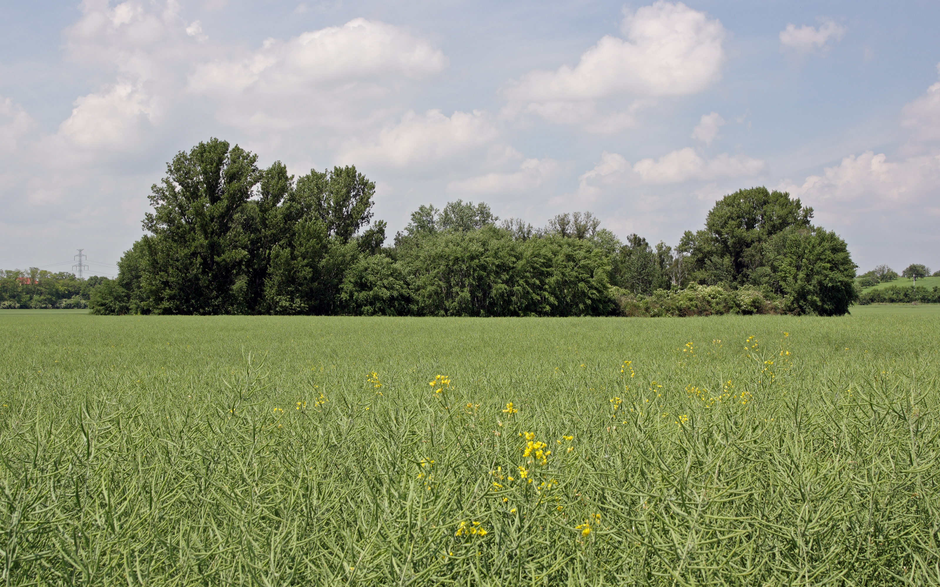 Natural monument Písky in Brno-Country District, Czech Republic